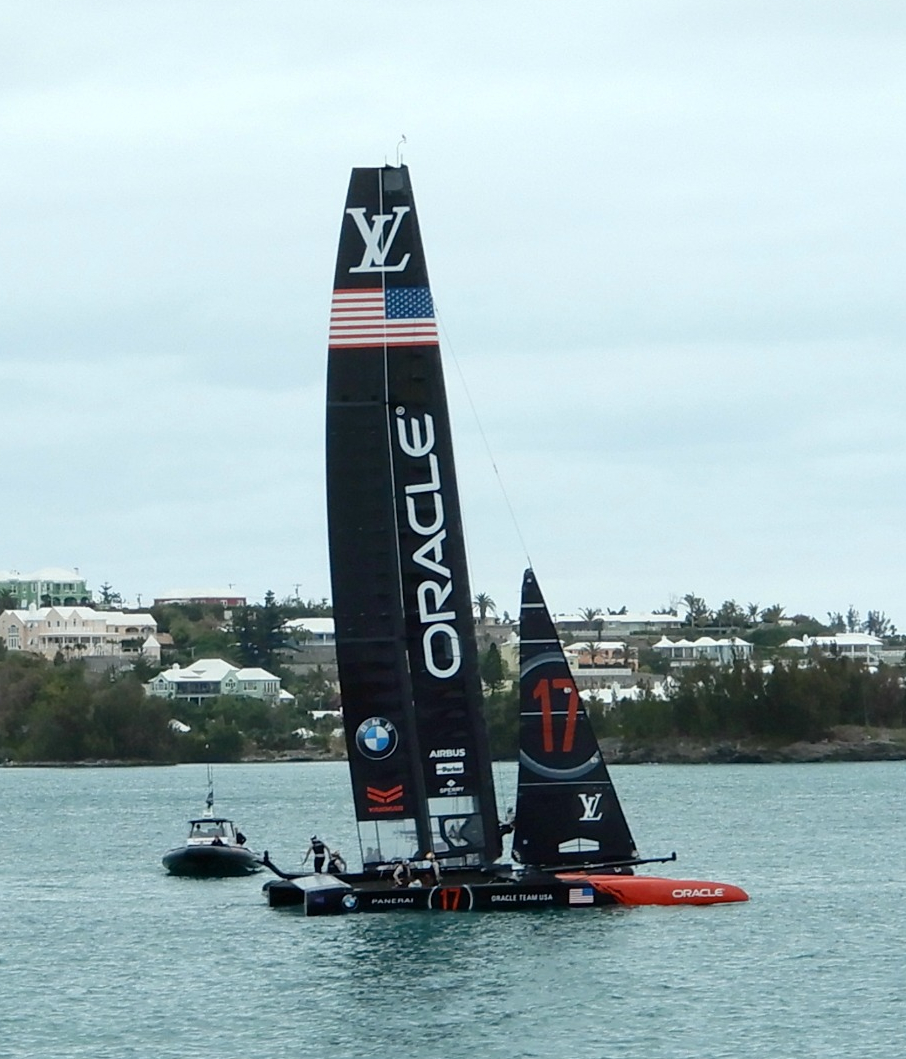 Oracle Racing trialling their AC50 racing yacht ahead of the 2017 Louis Vuitton Cup round robins.